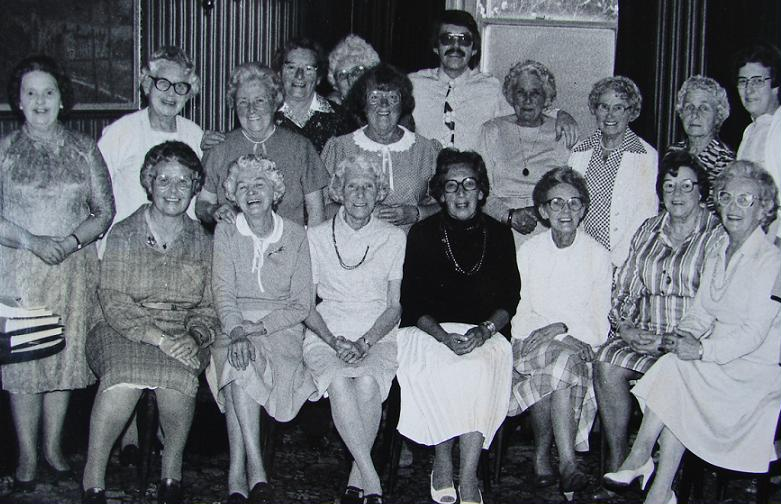 The original CCCC re-united 17 of Cliff's paintresses together in 1986